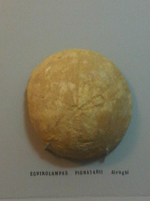 Echinolampas chiesai - syn: Echinolampas pignatarii at the National Museum of Natural History, Vilhena Palace, Republic of Malta.